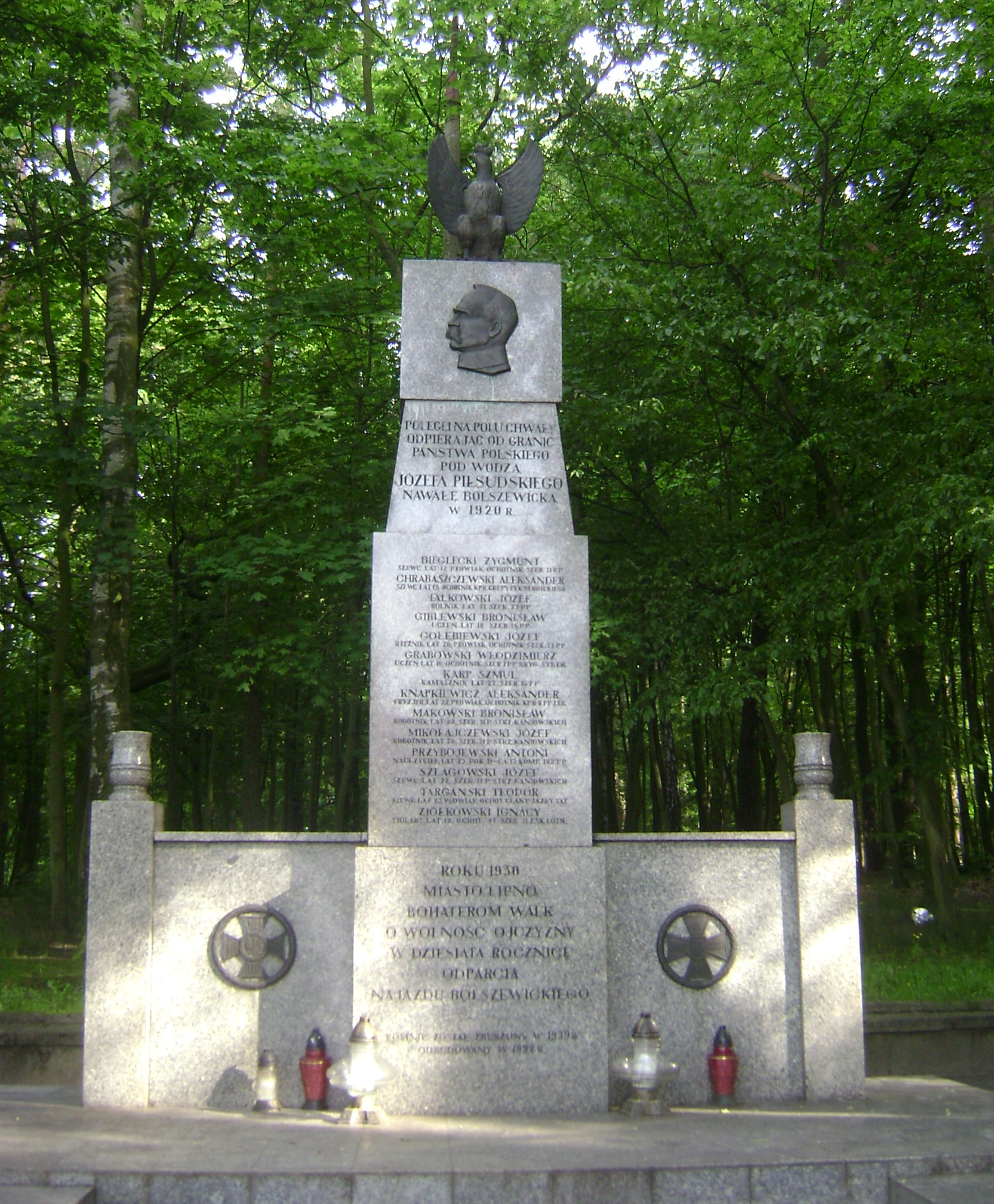 Poland. Kuyavian-Pomeranian Voivodeship. Lipno